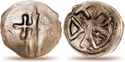 denarius Vytautas. An inscription in Russian letters «Seal». 1392-1396.